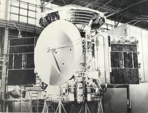 NASA